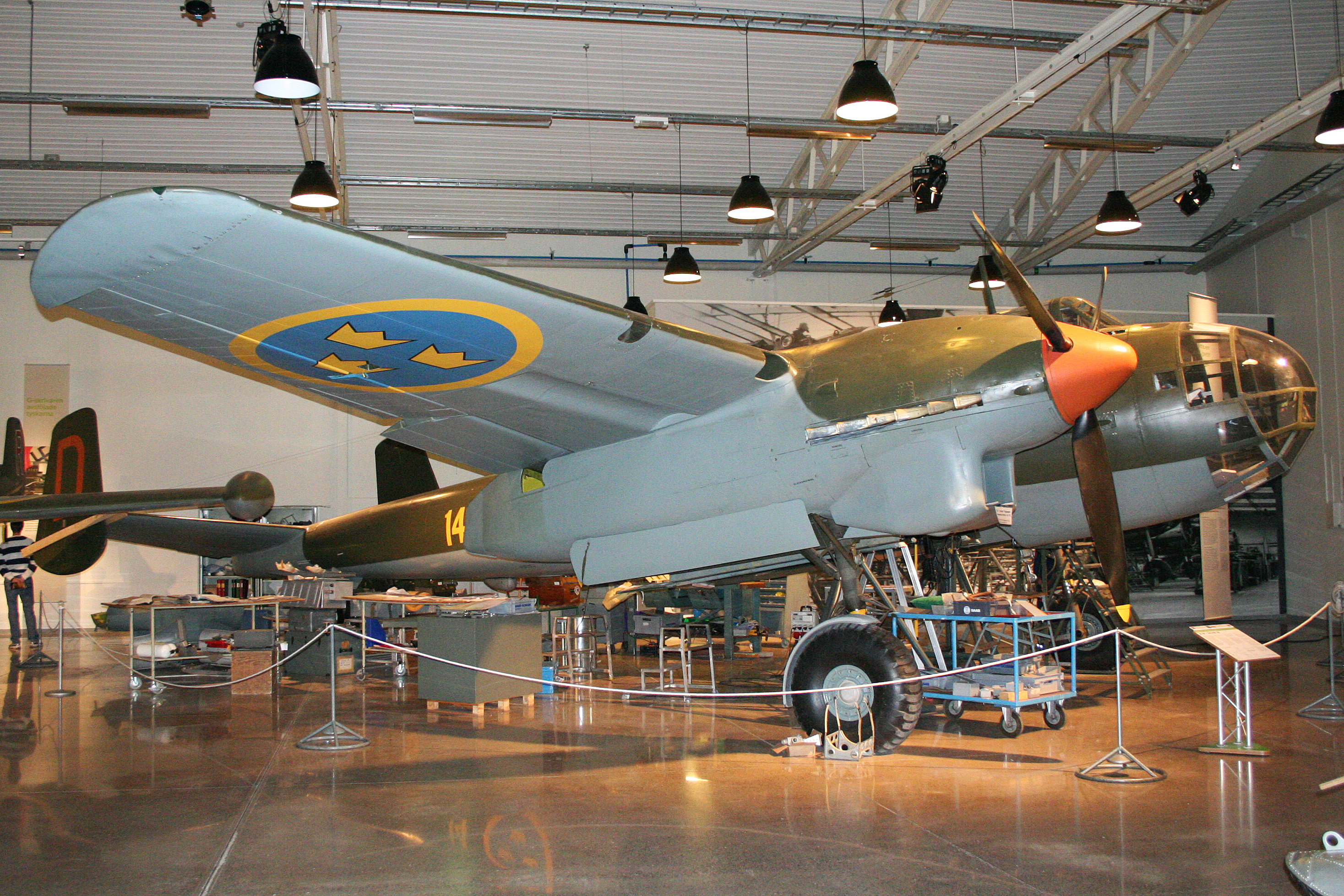 The 'B' model was a dive bomber variant. This aircraft was one of a group of eight aircraft which were lost in a snowstorm in 1946. It was finally recovered and restored in 1979 and is the only existing B18. msn 18172. Flyvapenmuseum, Malmen, Sweden. 04-06-2012